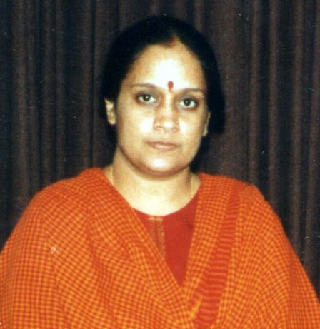 Sailaja in 1999 in Chennai